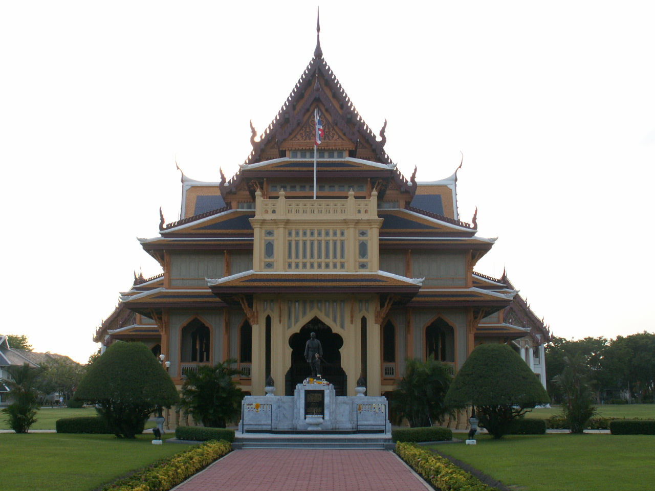 The Assembly Hall